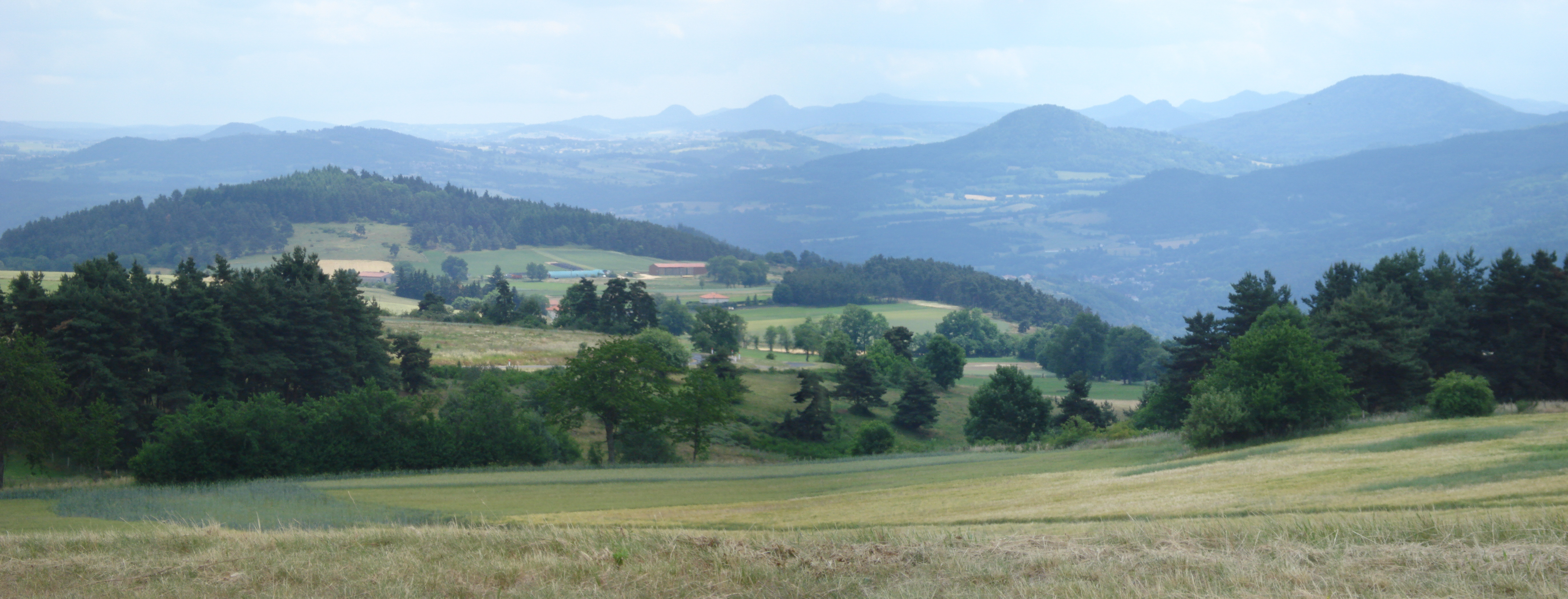 Saint-Maurice-de-Roche, panorama towards Monts du Vélay.